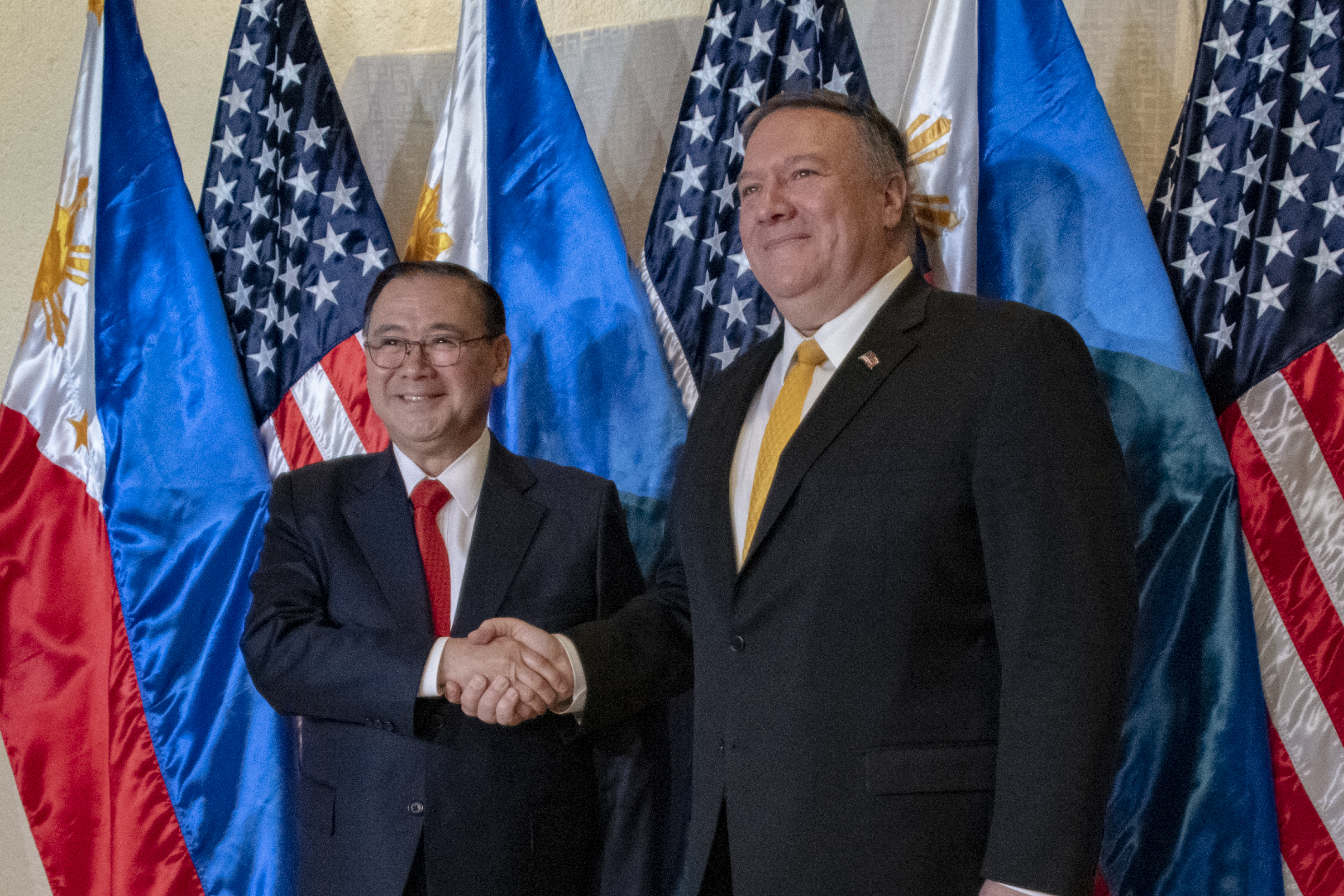 U.S. Secretary of State Michael R. Pompeo meets with Philippine Foreign Secretary Teodoro Locsin Jr., in Manila, Philippines, March 1, 2019. [State Department photo by Ron Przysucha/ Public Domain]